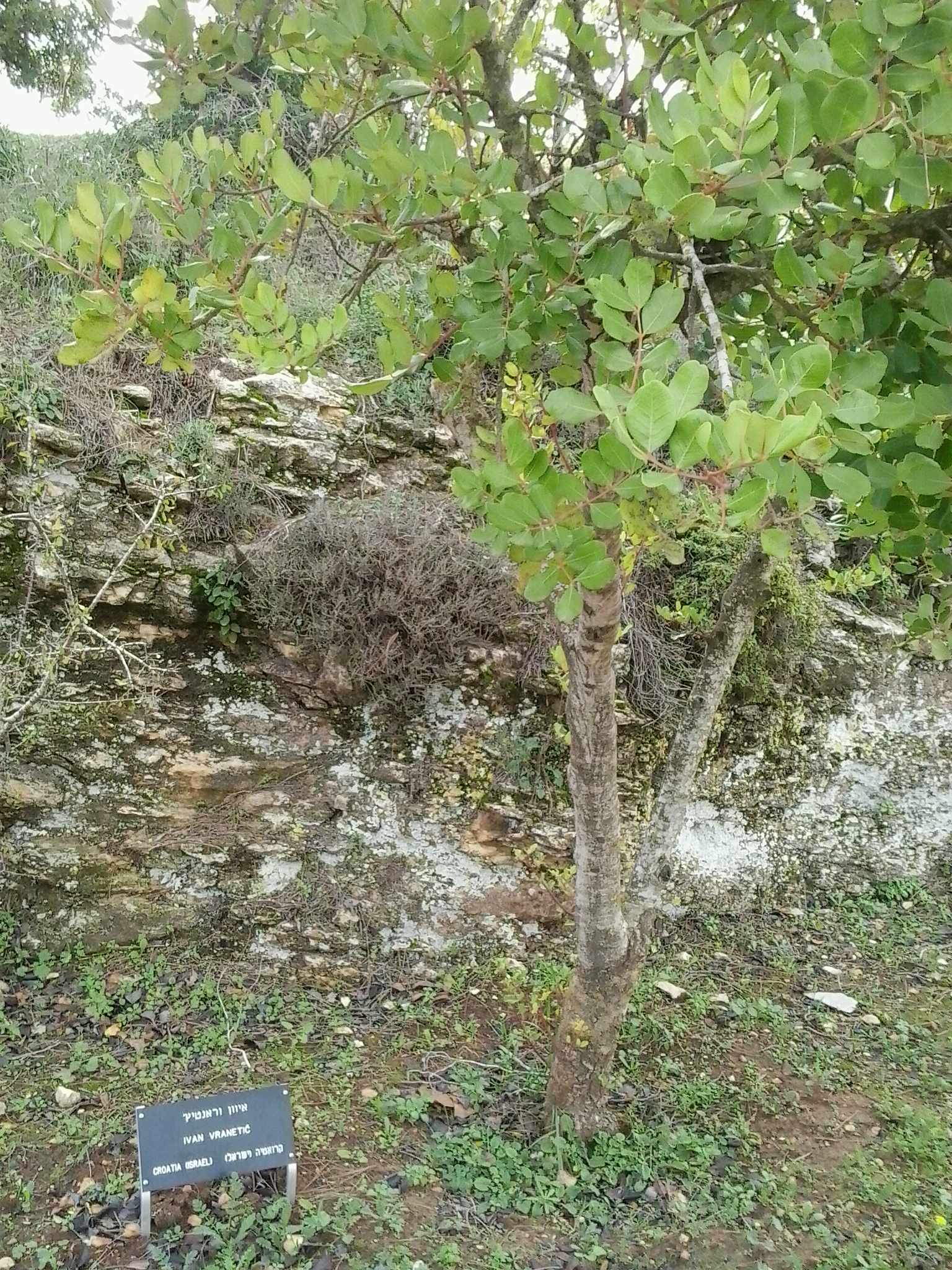 a tree planted at Yad Vashem honoring Ivan Vranetić